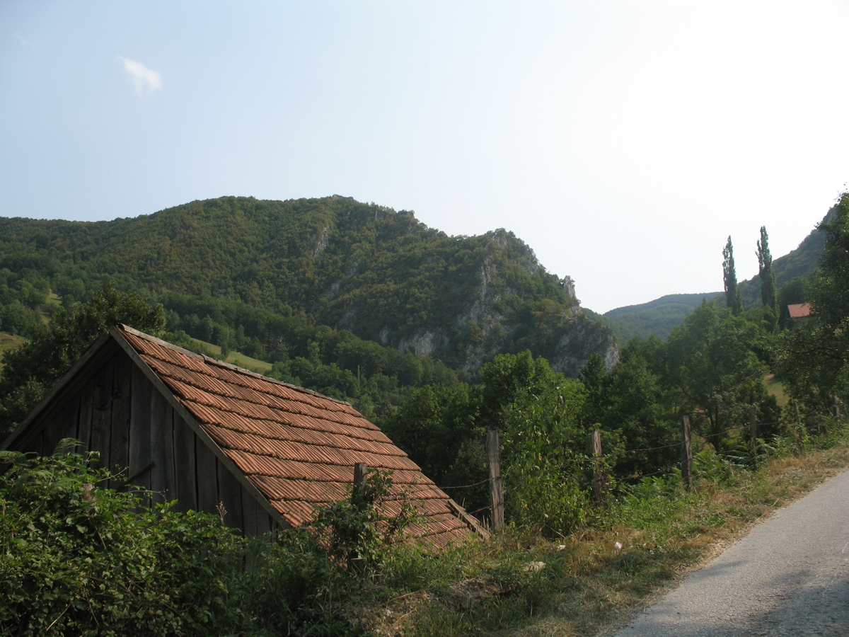 View on remains of Solotnik Fortress above village of Solotuša, near Bajina Bašta on Drina, Serbia.